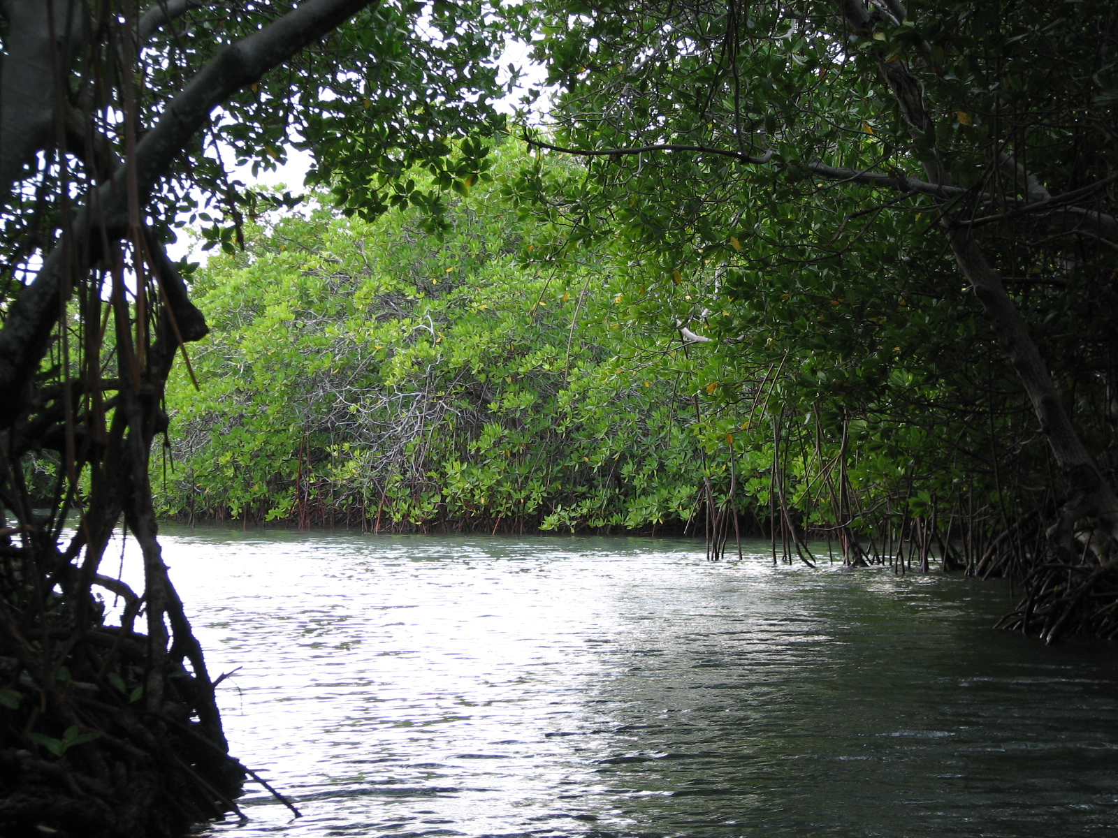 Mangroves, La Pargüera, Lajas, Puerto Rico